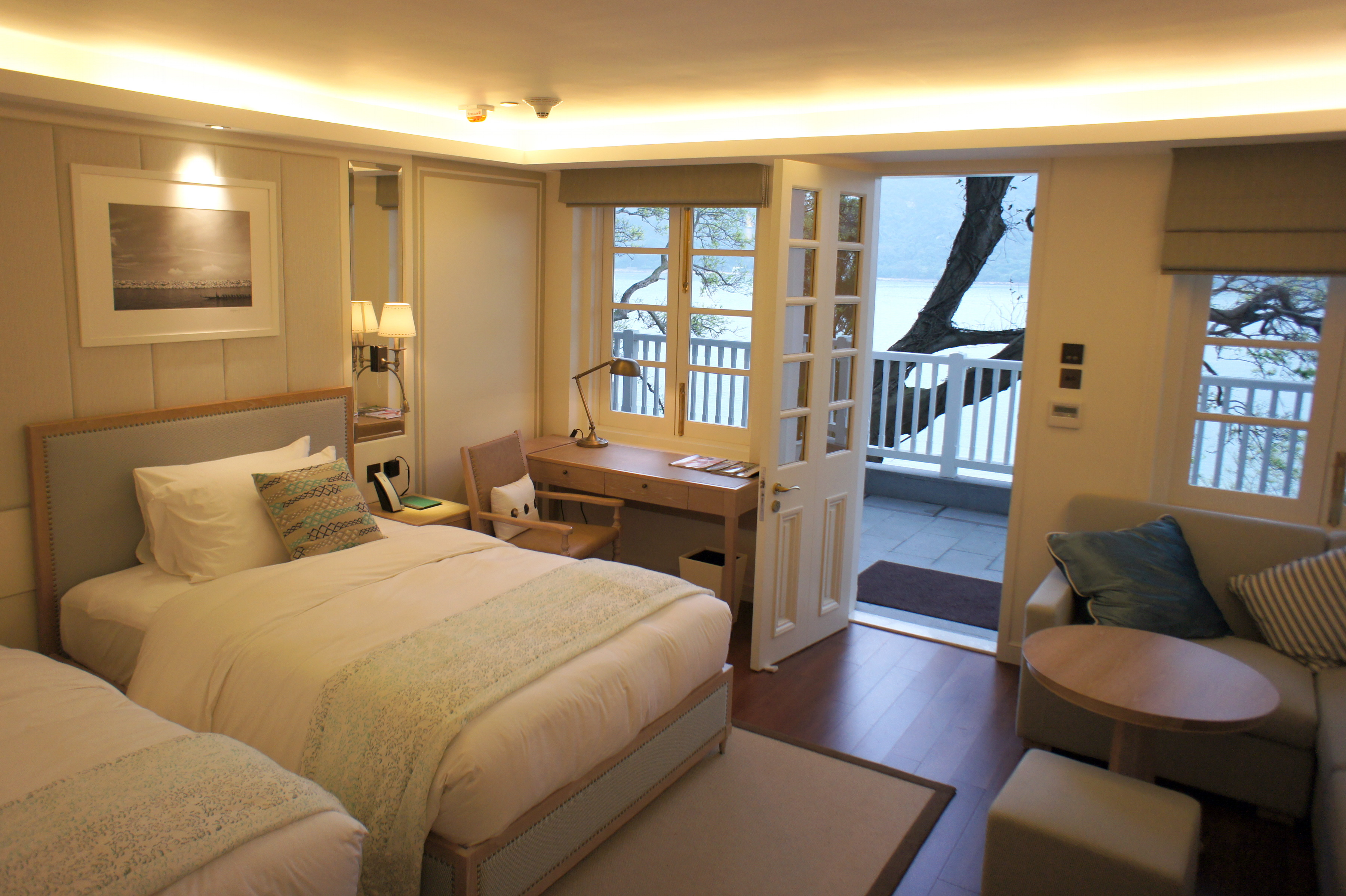 Tai O Heritage Hotel, Room 1120 "Treasure Pond". It was a Police Constable Night Duty Room. (Tai O, Lantau Island, Hong Kong)